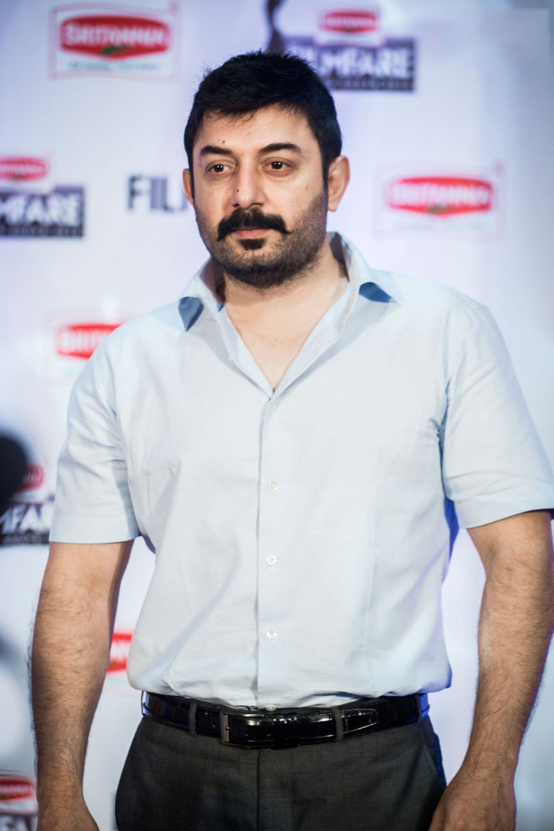 Aravind Swamy at 63rd Filmfare Awards 2016 (South) Press Meet